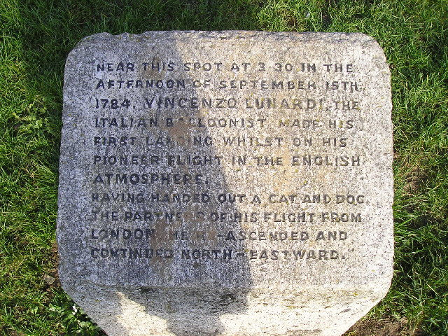 Balloon Corner, Welham Green. At the junction of Parsonage Lane and Huggins Lane stands this stone commemorating the brief landing nearby of the first (hydrogen) balloon flight in this country. It is often used to retie shoelaces on.